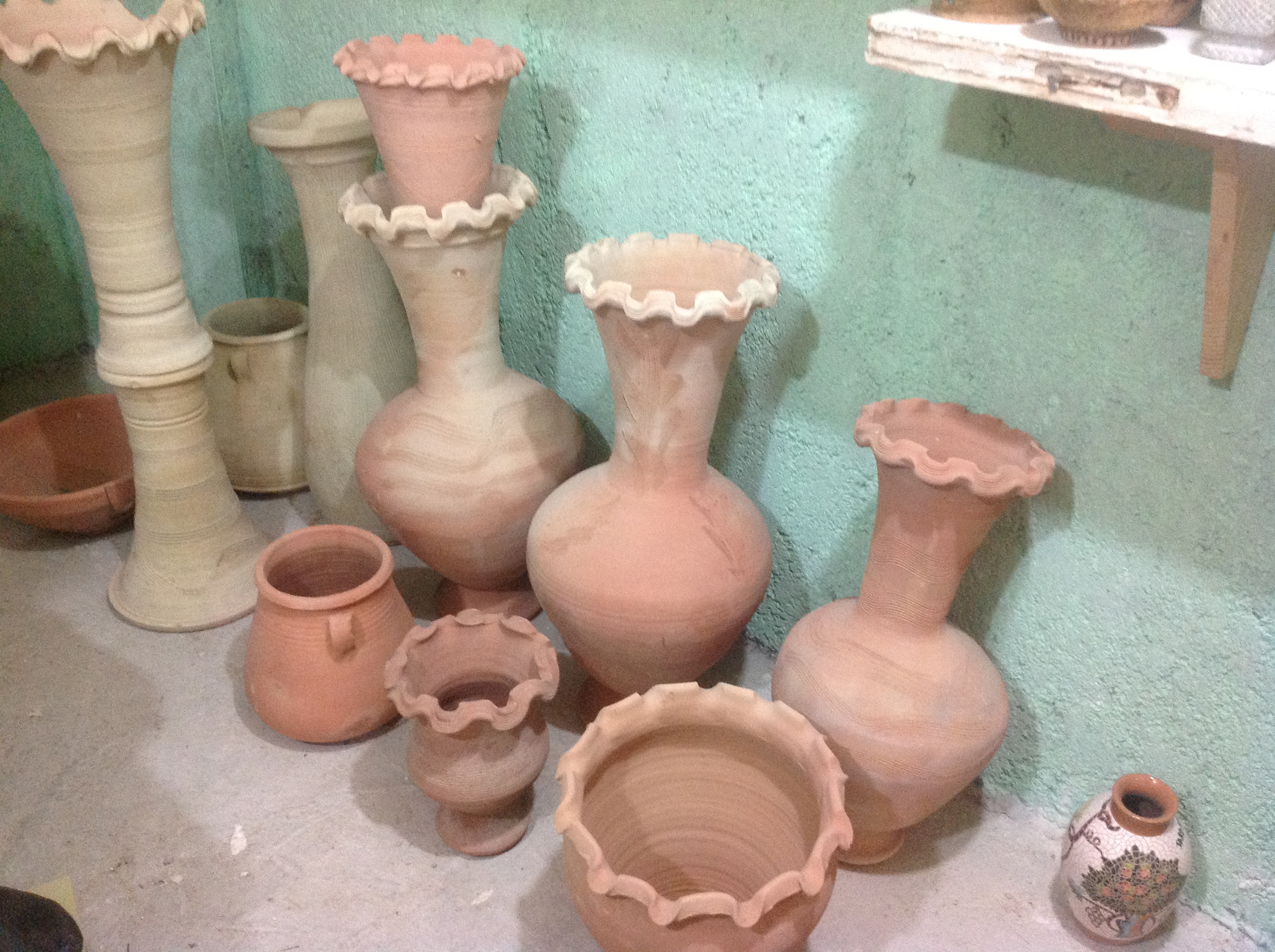 Hand made jars and pots used to save liquids and other types of food. Made in Jordan.